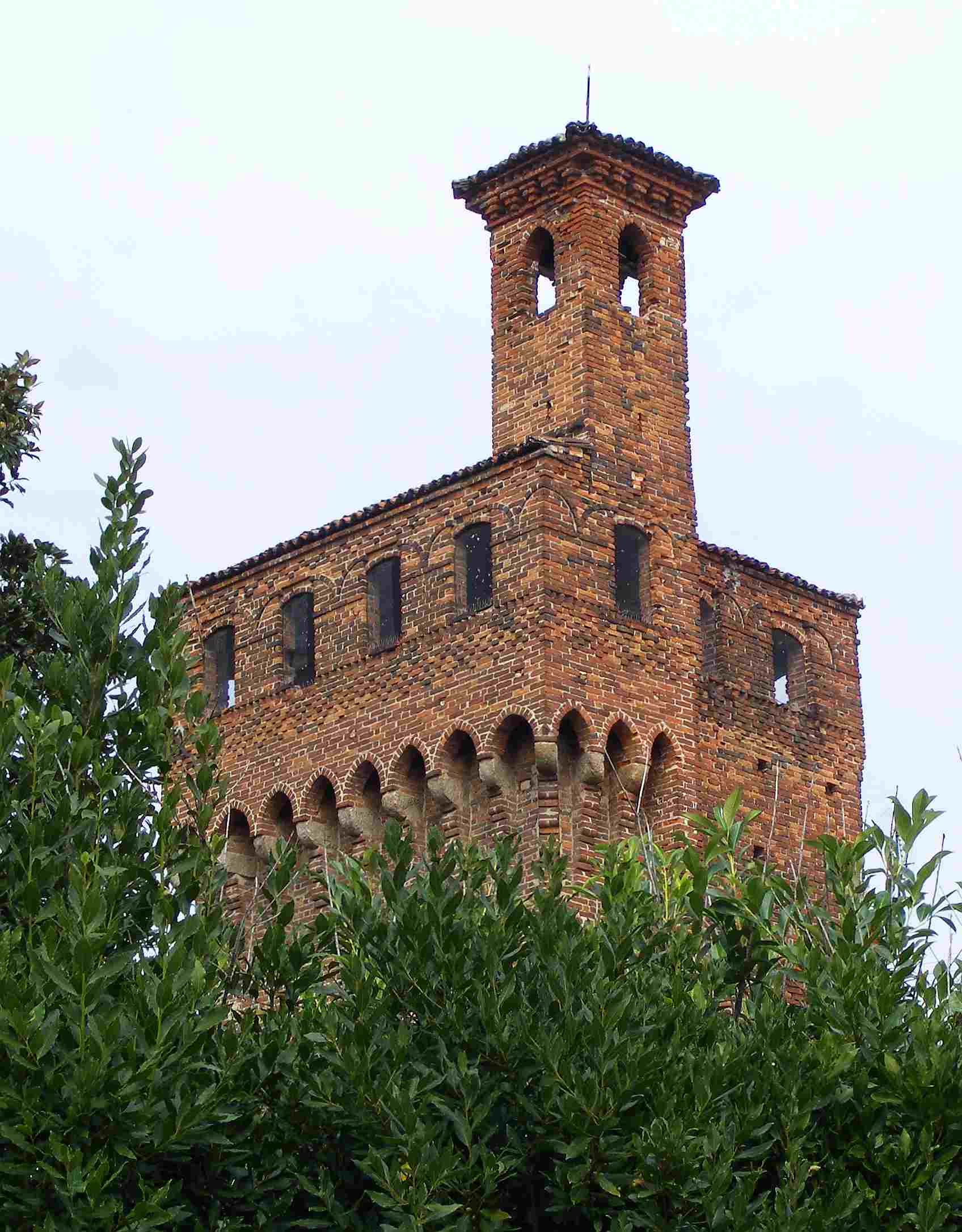 Casanova Elvo castle (VC, Italy)